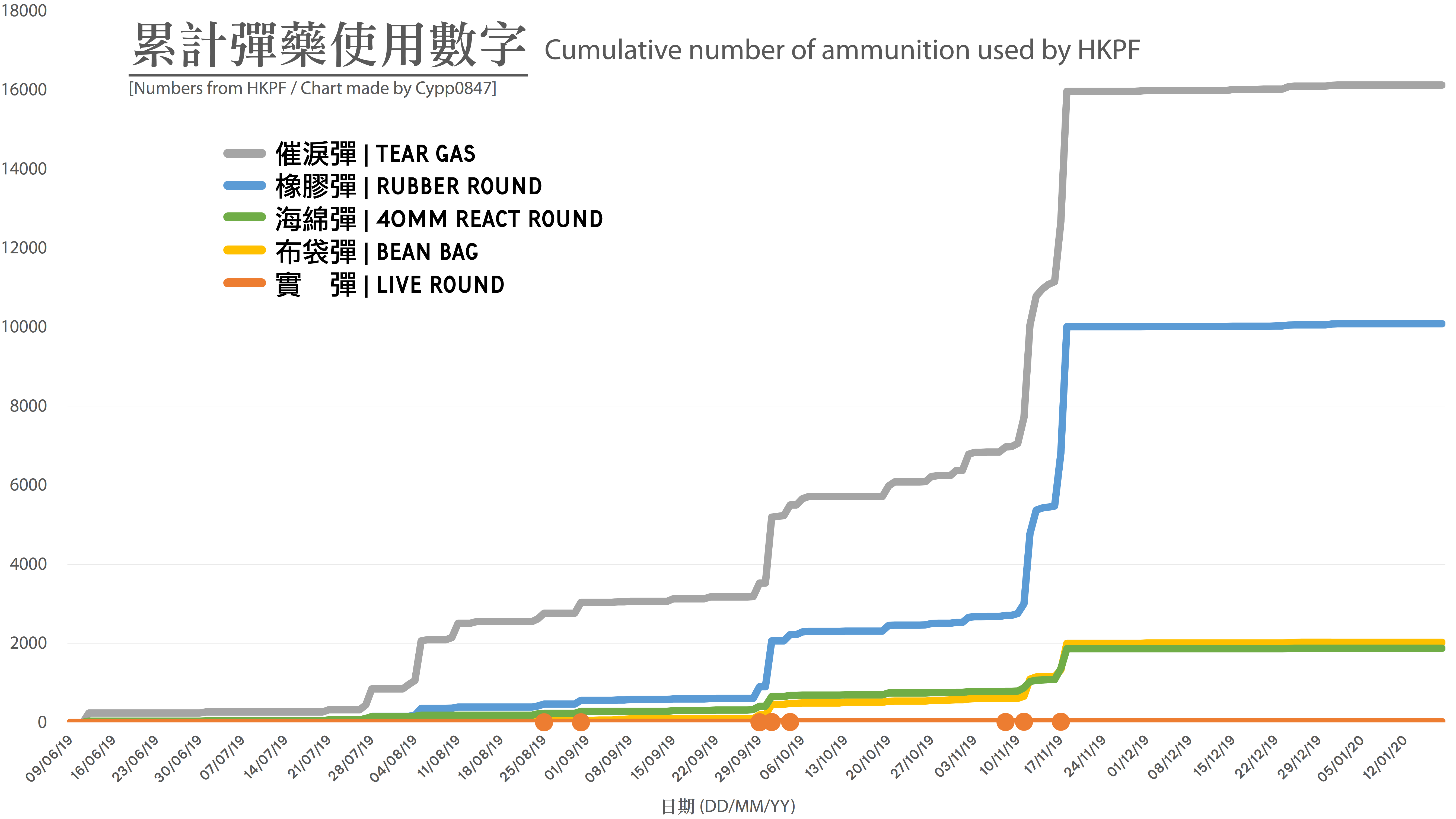 A cumulative graph showing the number of bullets used by Hong Kong Police Force during demonstrations.